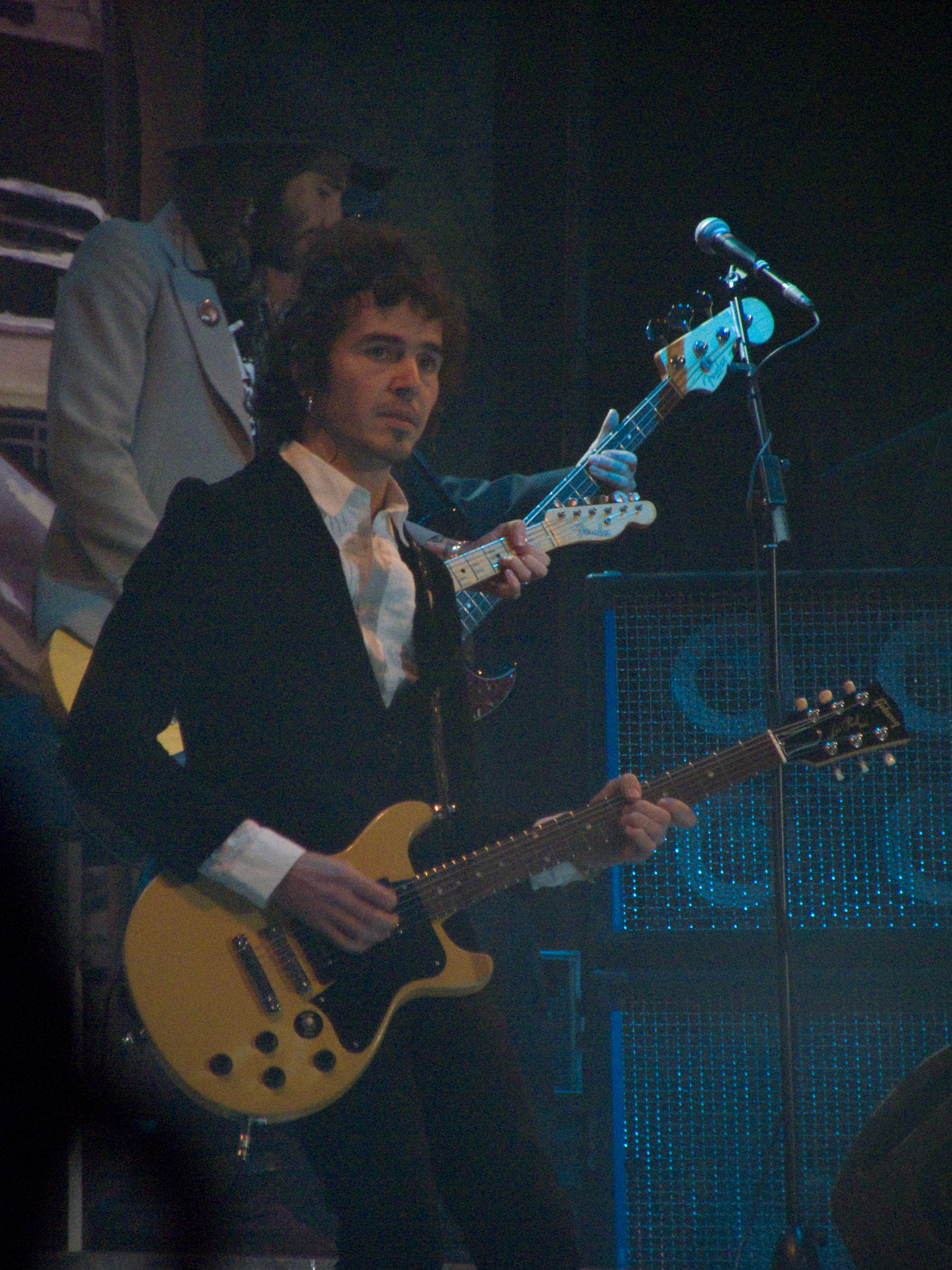 Pereza were guest stars during a concert of Joaquín Sabina in the "Vinagre y rosas" Tour in Madrid (Spain)